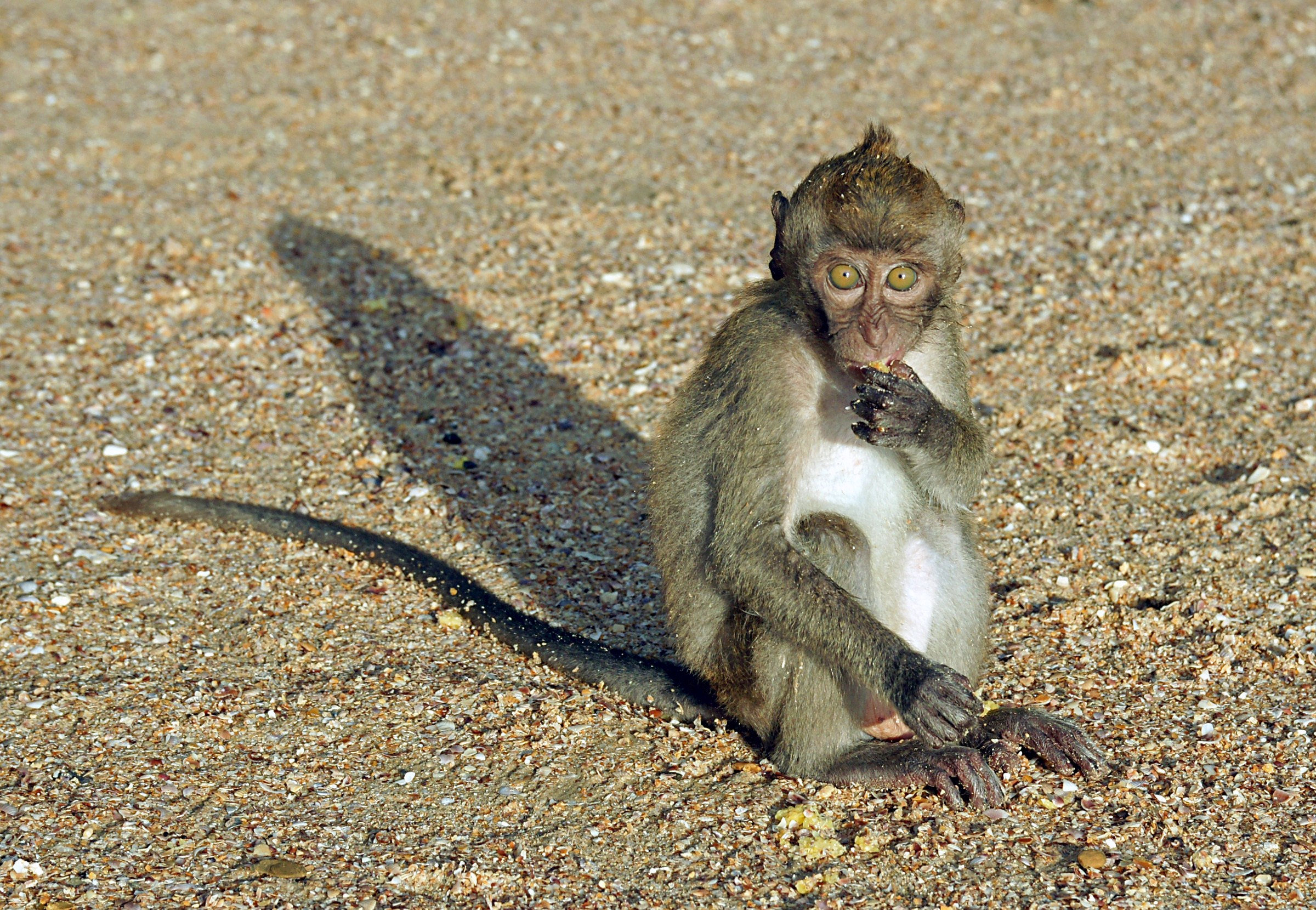 Crab-eating macaque (Macaca fascicularis) on Ao Nang beach, Krabi, Thailand.